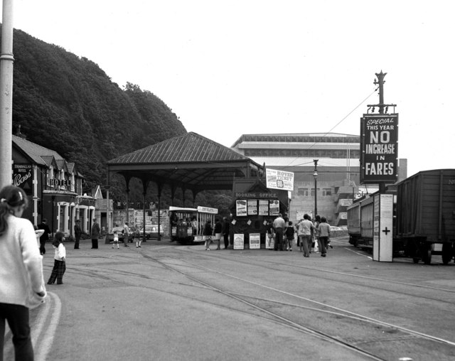 Derby Castle horse tram terminus, Douglas, Isle of Man This interesting 1972 photograph shows, on the left, the Strathallan Hotel, which was at one time the home of the managing director of the Manx Electric Railway; next from the left, the large open iron shed (later demolished) which served as the horse tram terminus, with car 45 loaded with passengers and awaiting its horse. Behind is the then-new Summerland building, which was to burn down with tragic consequences only a year later; and, on the right, Manx Electric cars for Ramsey, with a goods van at the end of the line.